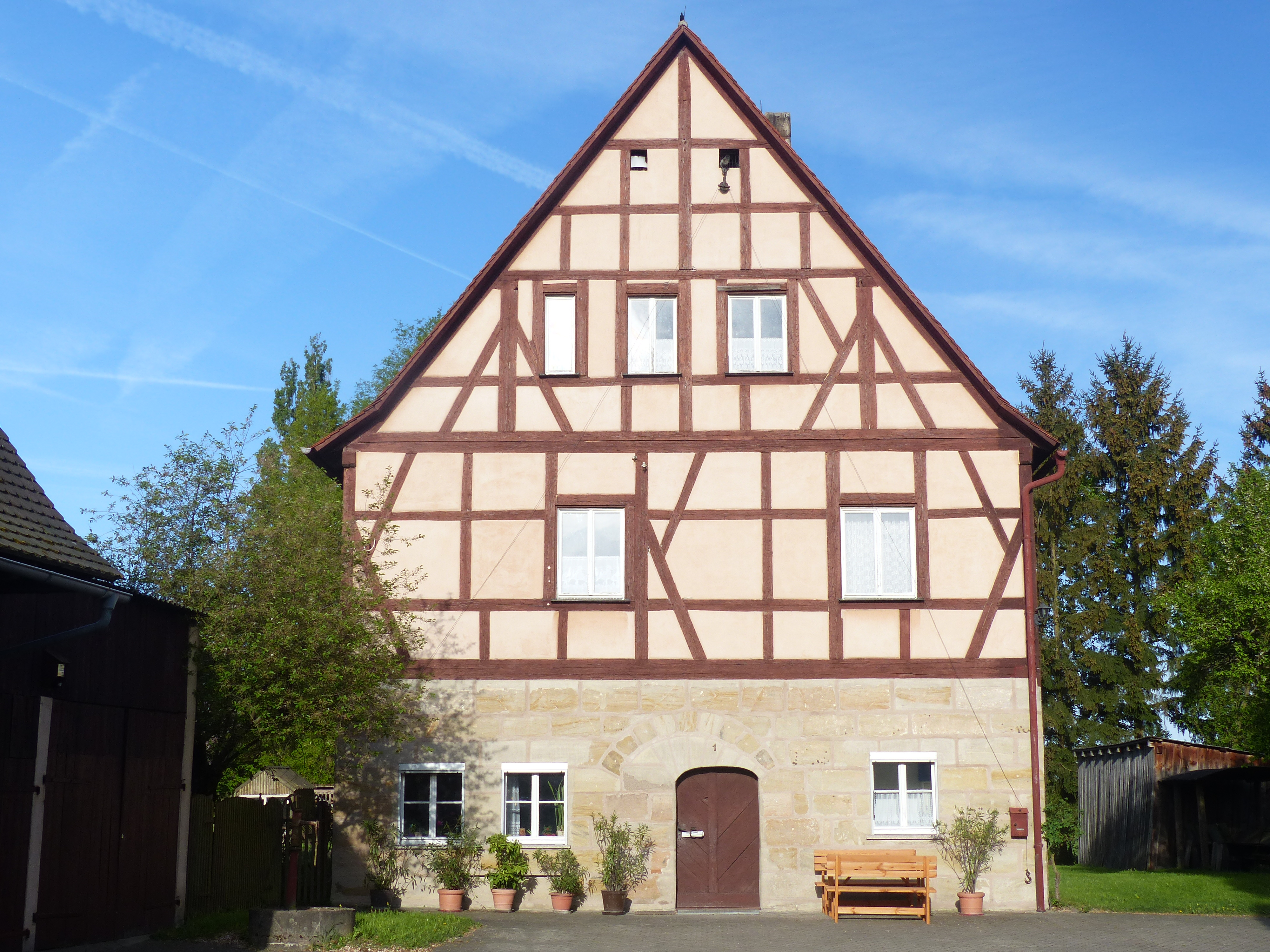 The former manor house Letten. Situated in the village Letten, a part of the town of Lauf an der Pegnitz